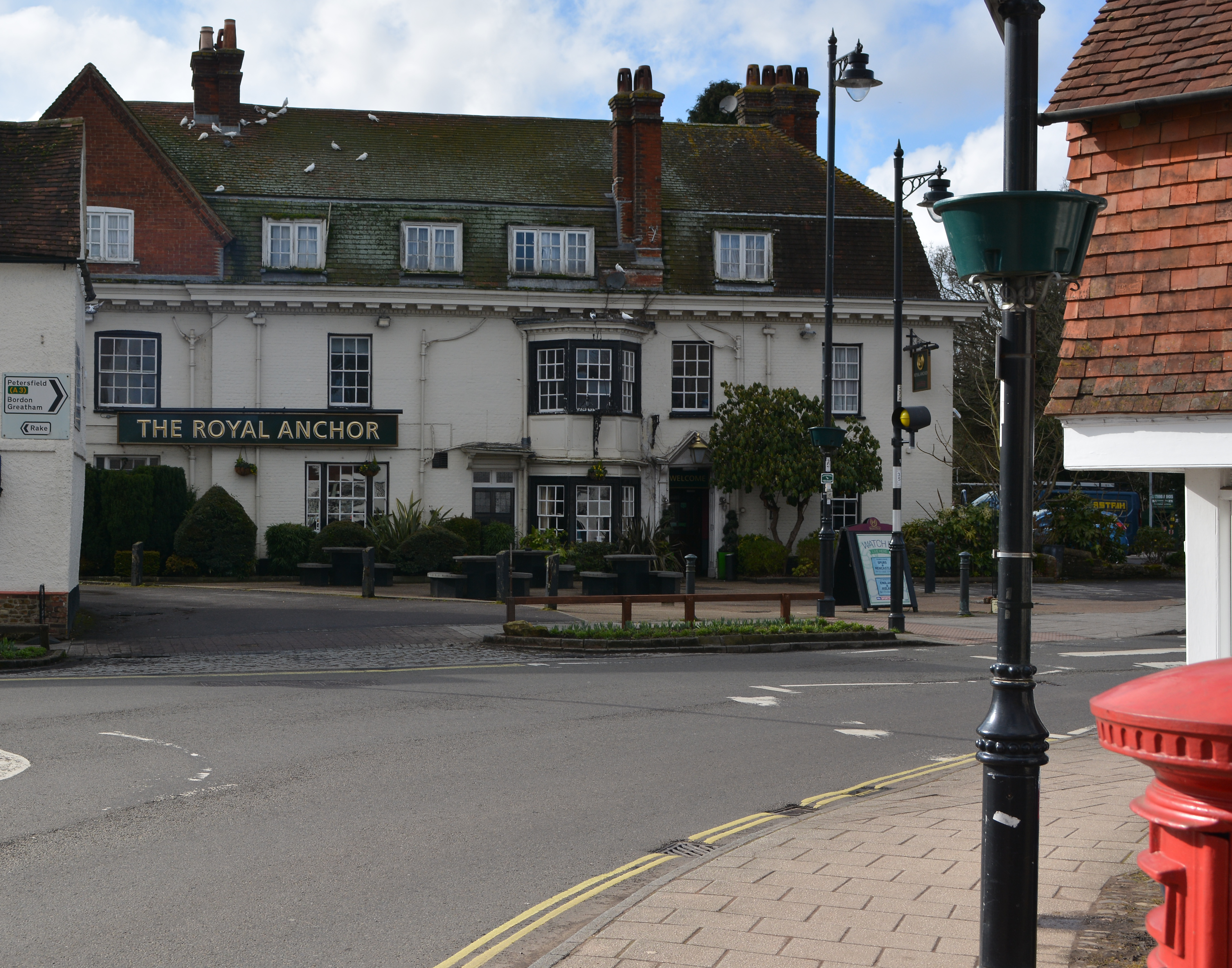 The east façade of the Royal Anchor seen looking west from the square in the afternoon